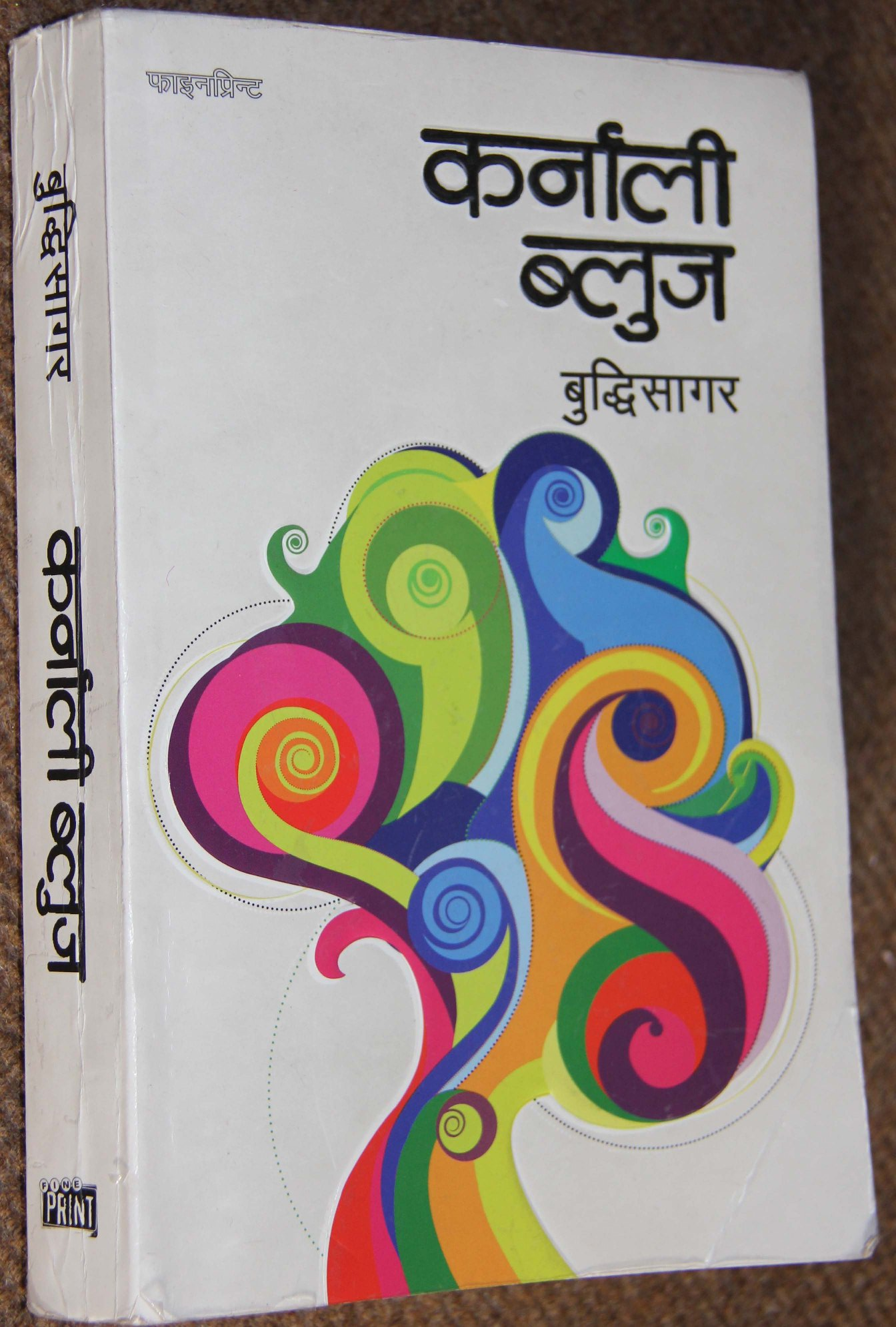 This is the cover of the famous Nepali Novel Karnali Blues by Buddhisagar.